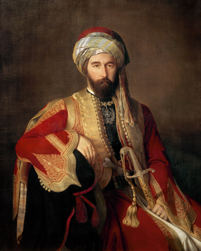 The German August Giacomo Jochmus in Turkish Military Uniform